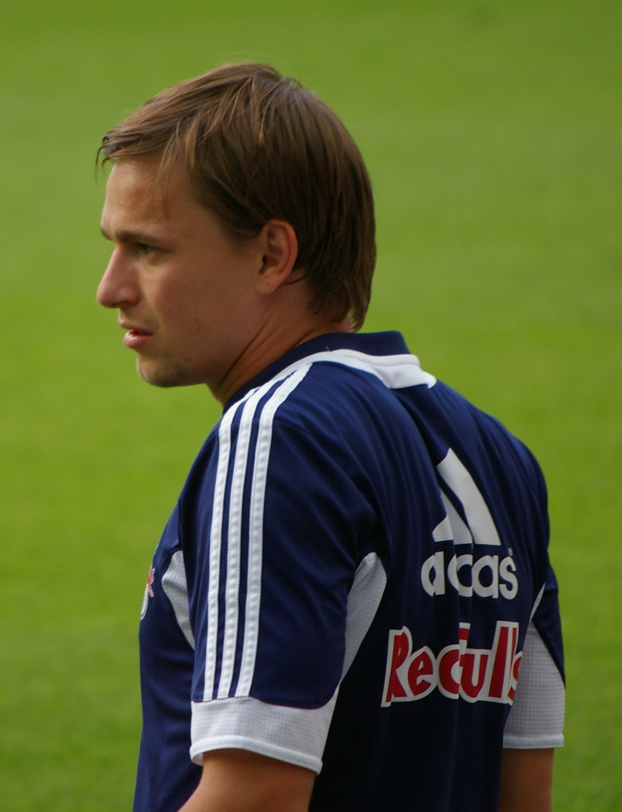 midfielder RB salzburg